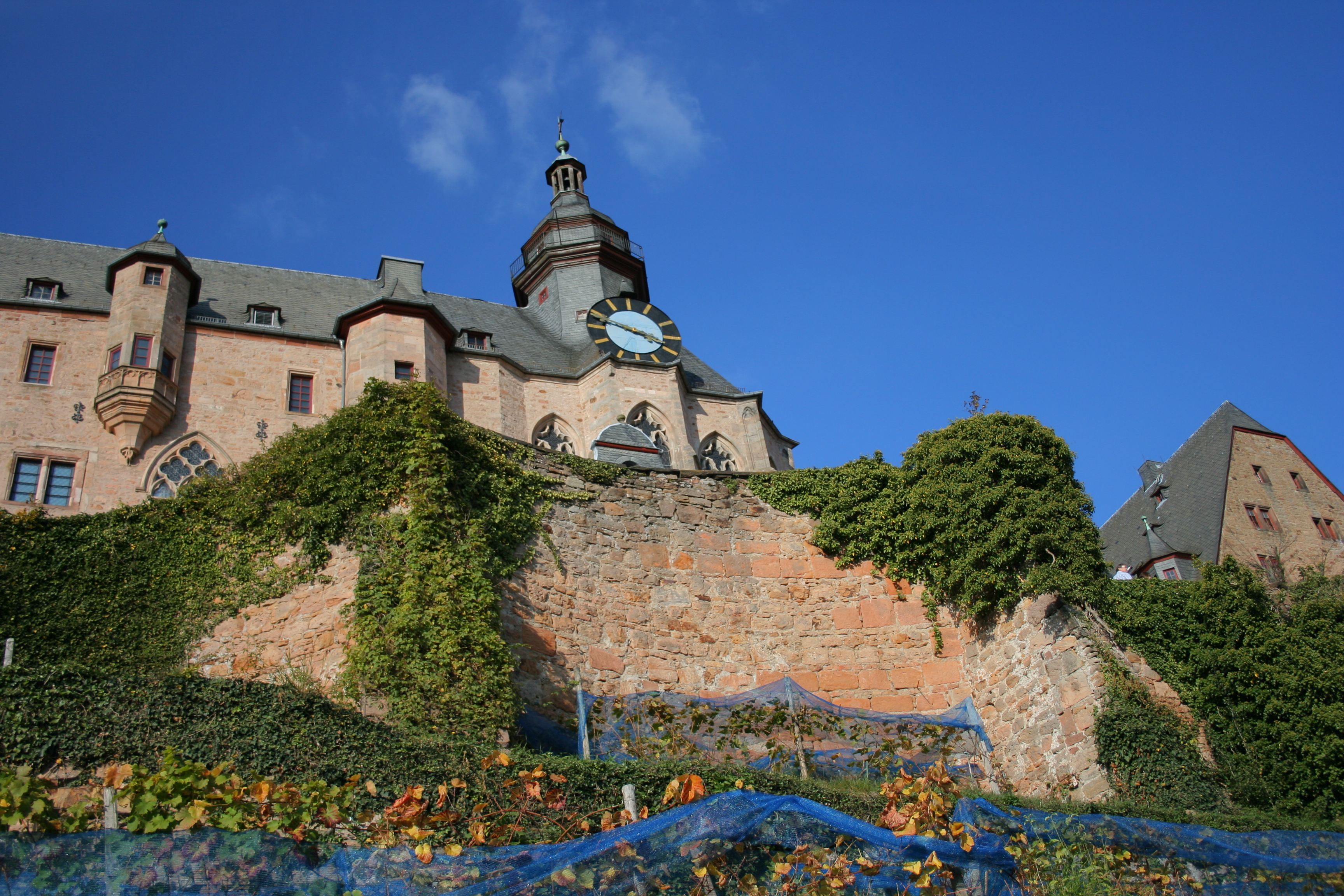 Castle of Marburg